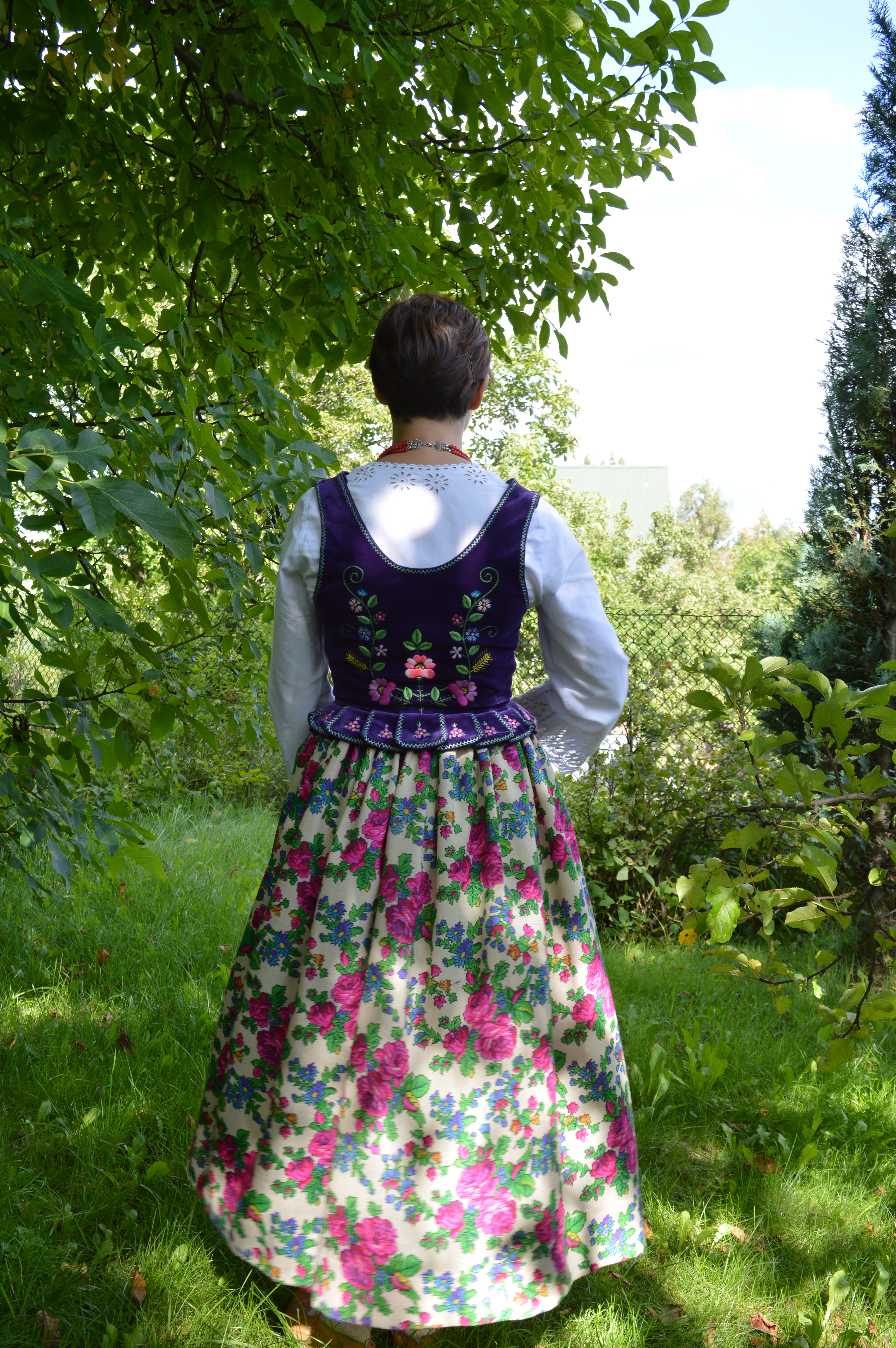 A girl wearing Beskid Żywiecki dress inspired by traditional patterns/traditional sets. Made by Jadwiga Jurasz